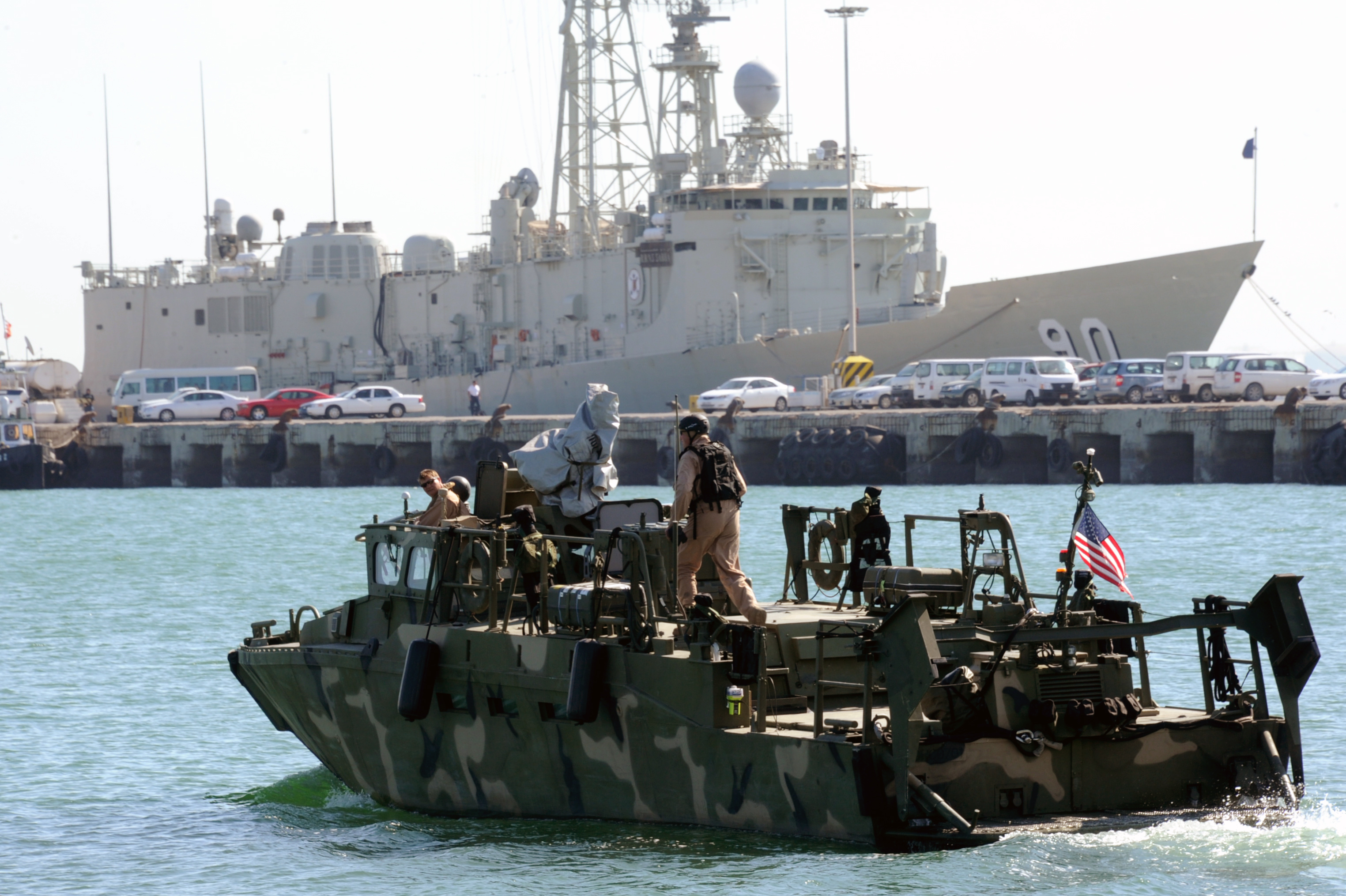 MINA SALMAN PIER, Bahrain (Dec. 7, 2011) Sailors assigned to Riverine Squadron (RIVRON) 2 get underway in riverine command boats. The boats provide riverine forces with the new capability of operating in littoral waters, as well as the traditional river, or brown water environment. The RIVRON 2 detachment is assigned to Commander, Task Force (CTF) 56, conducting maritime security operations and theater security cooperation efforts in the U.S. 5th Fleet area of responsibility. (U.S. Navy photo by Mass Communication Specialist 1st Class Krishna M. Jackson/Released)